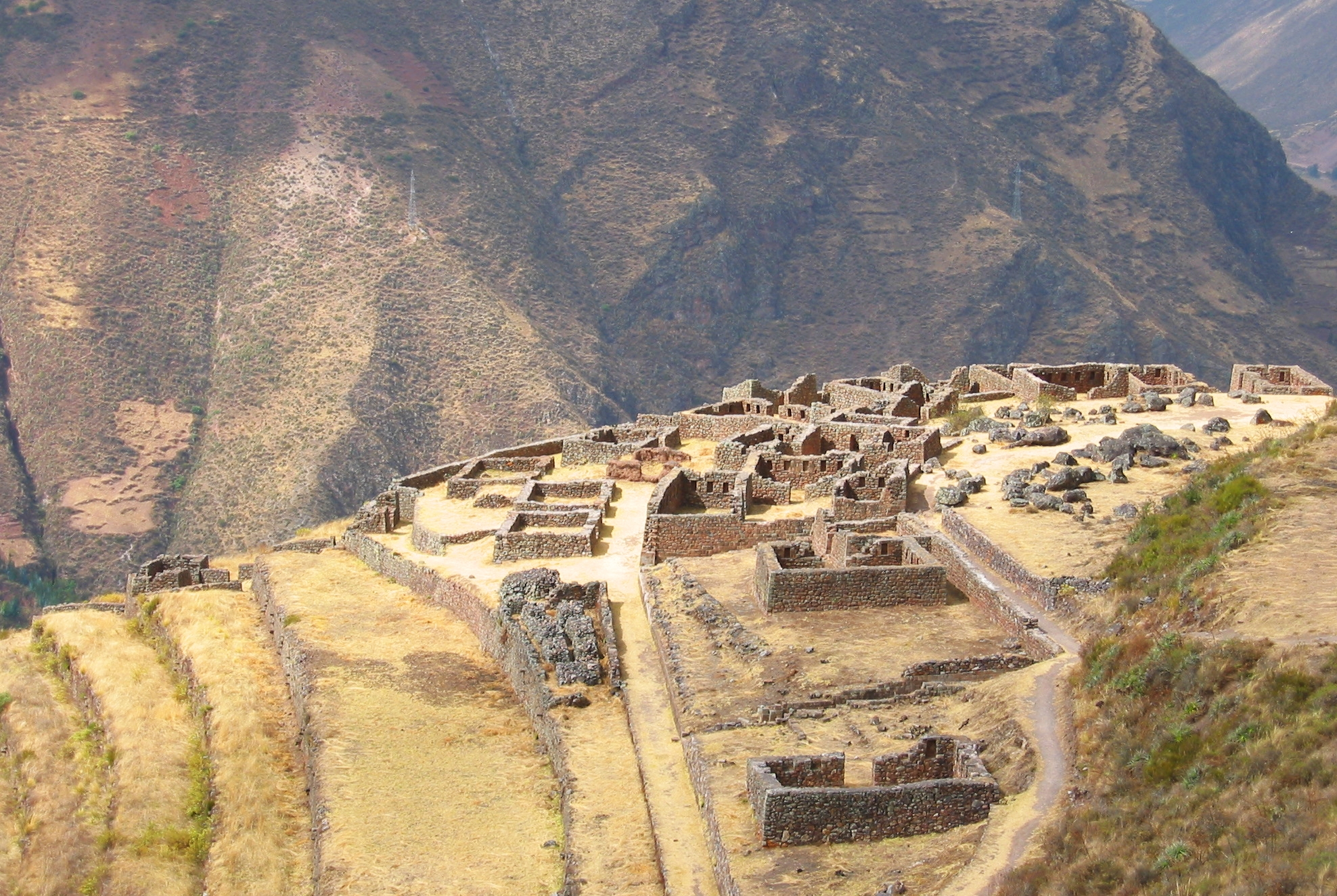 Q'Allaqasa ruins with terraces below at Písac, Peru. Commons:Category:Pisac